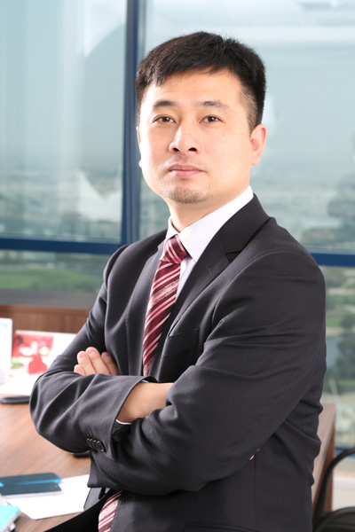 Mr. Alex Lu Head of Rlg Communications at his office in Dubai- UAE